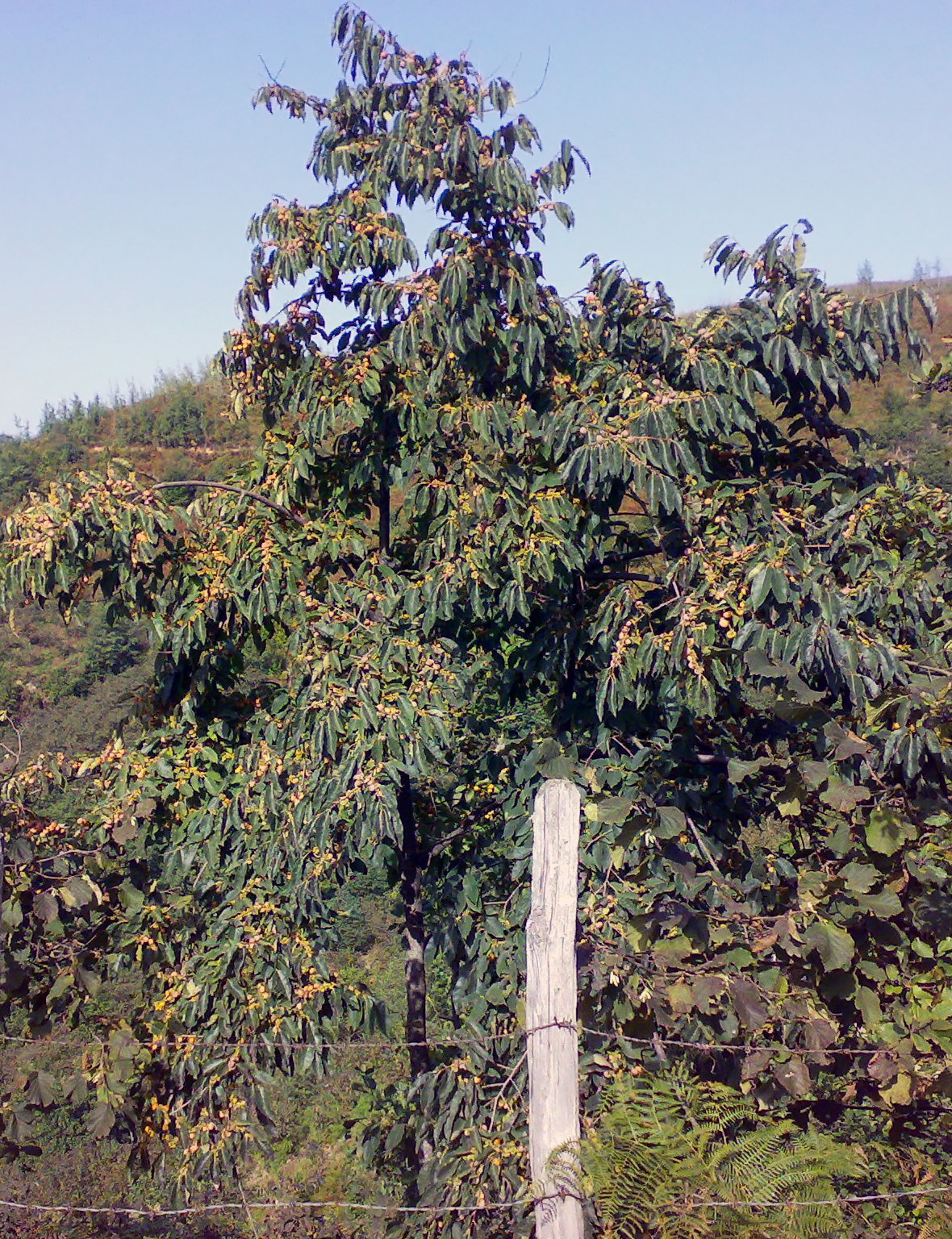 A tree of Caucasian persimmon (Diospyros lotus). Espiye - Giresun, Turkey.